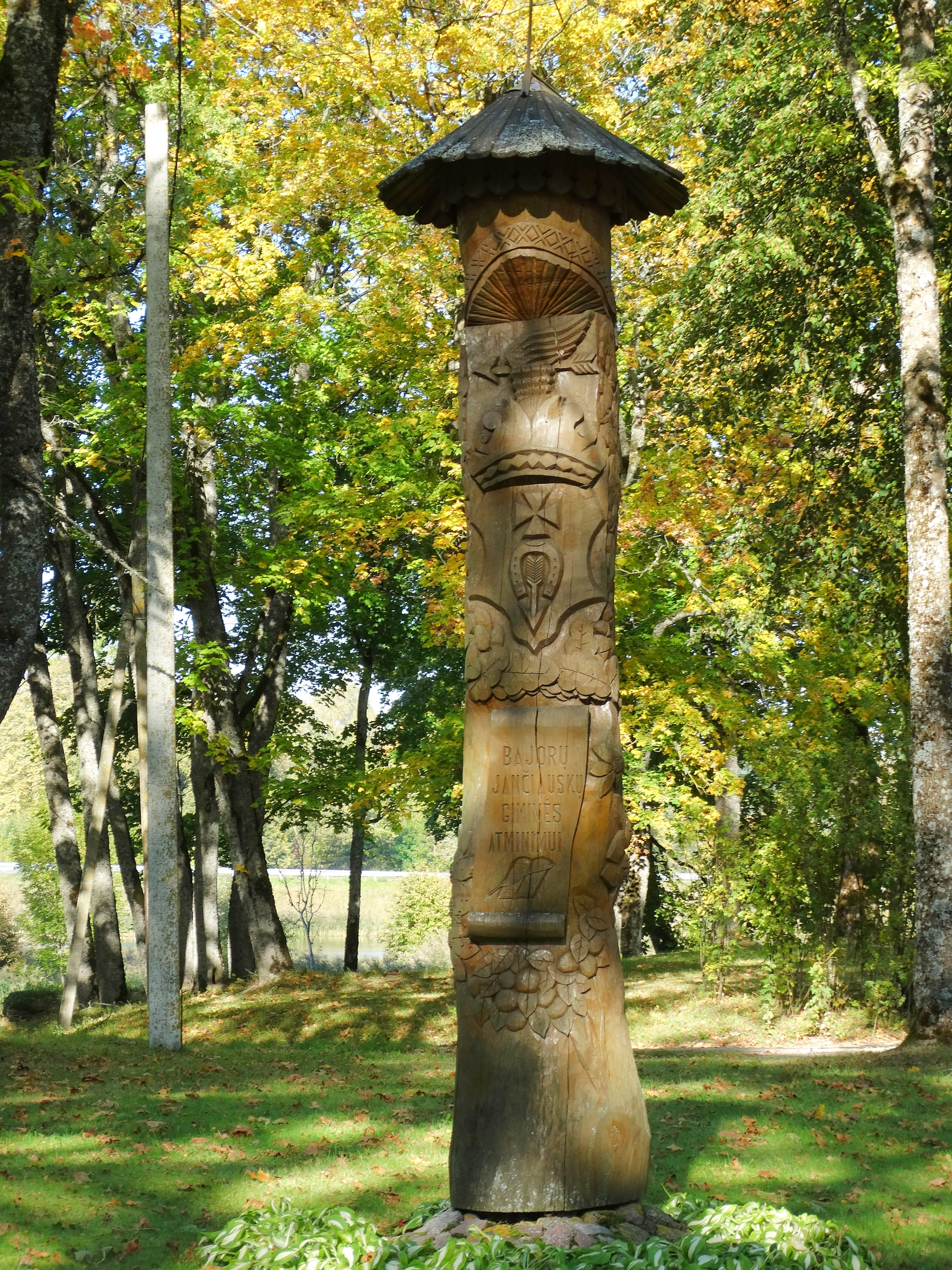 In memory of Janczewski (Jančiauskai) family, Blinstrubiškiai, Raseiniai District, Lithuania